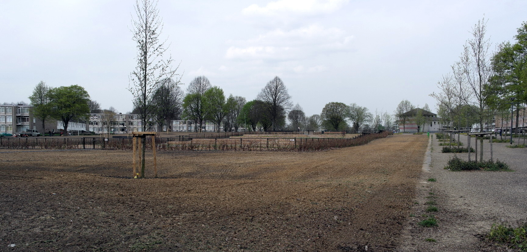 Maastricht, the Netherlands. View towards the northwest of neighbourhood park between Caberg and Malpertuis, here under reconstruction, Spring 2014.